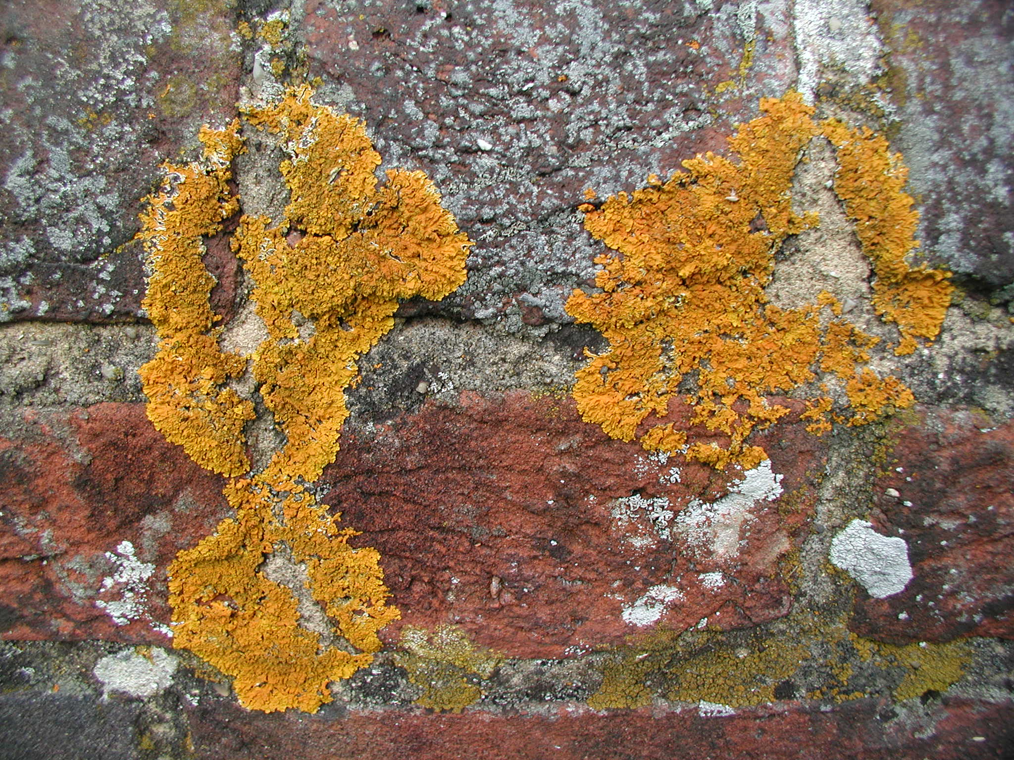 On the wall outside the church at St Paul's Walden, Hertfordshire.Lichen